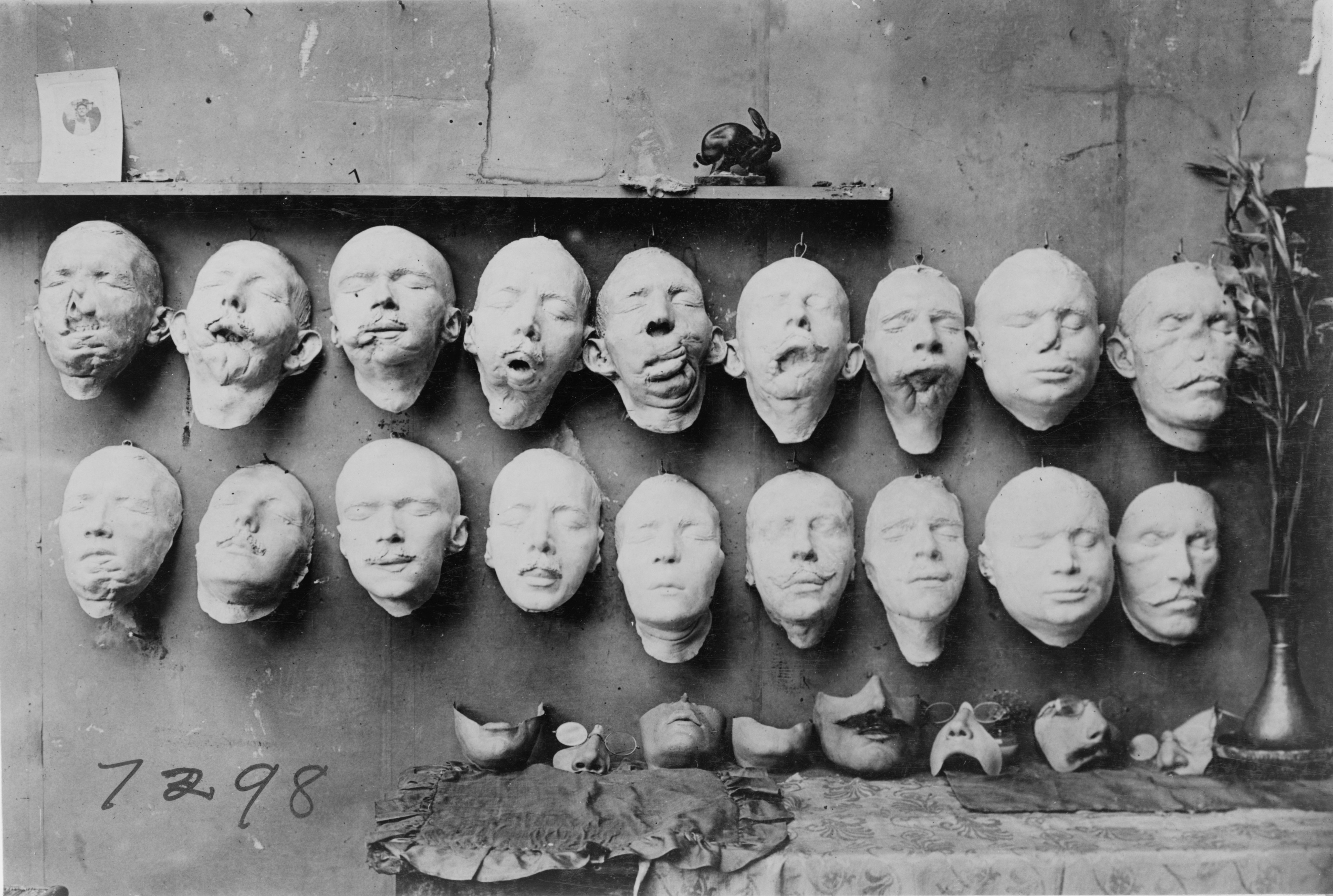 Title: Masks, showing different stages in the work done by Mrs. Coleman Ladd of the American Red Cross, for soldiers whose faces have been mutilated in the war ... Abstract/medium: 1 photographic print.